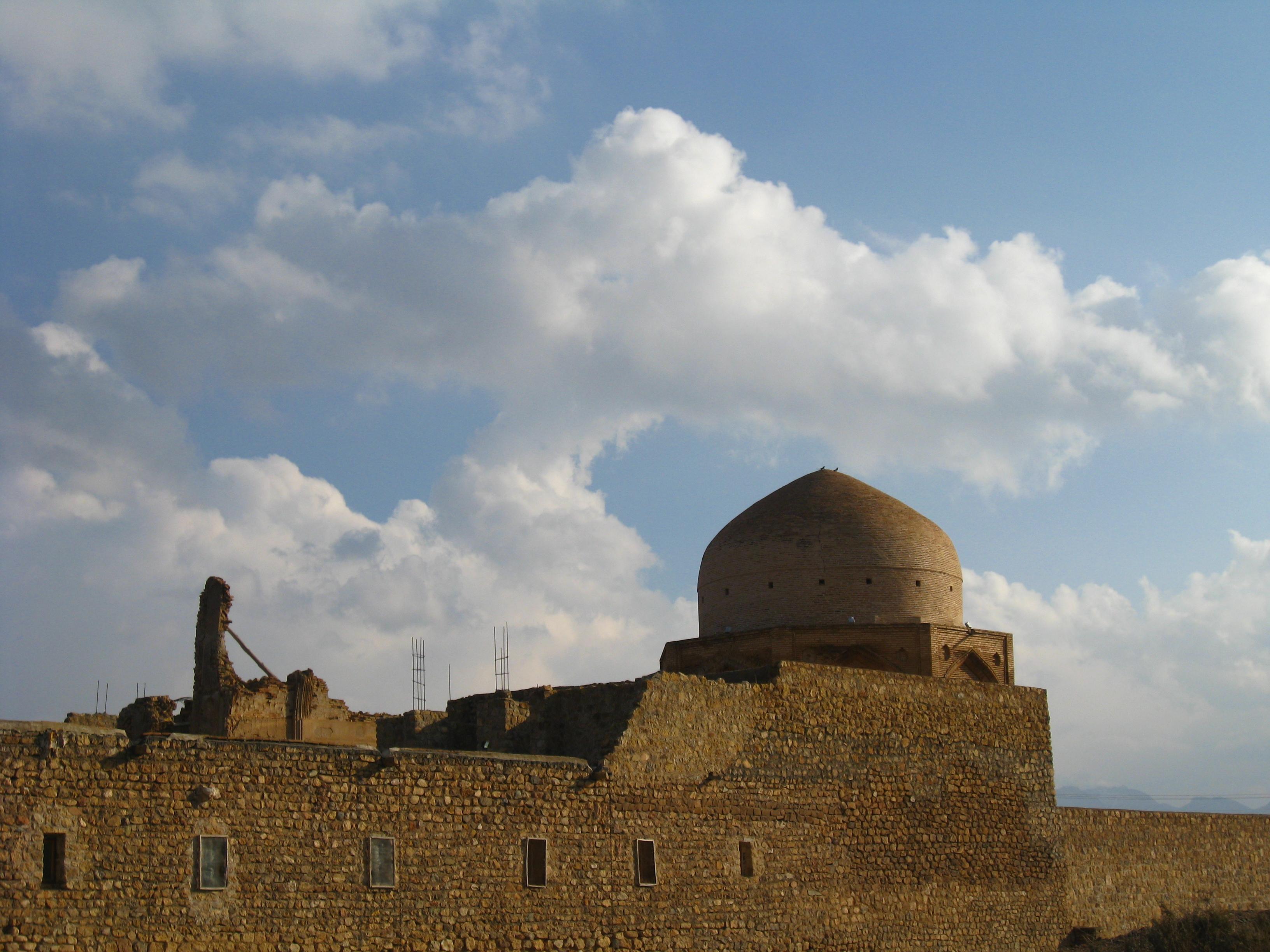 chalapy oghly mausoleum